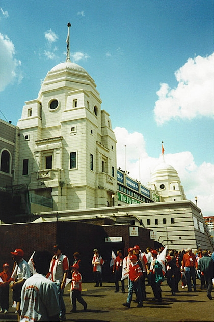 Wembley Twin Towers These concrete towers were claimed to be crumbling and beyond repair when Wembley Stadium was demolished. Here a mix of supporters in red are gathering for the FA Trophy Final between Kidderminster Harriers and Woking.